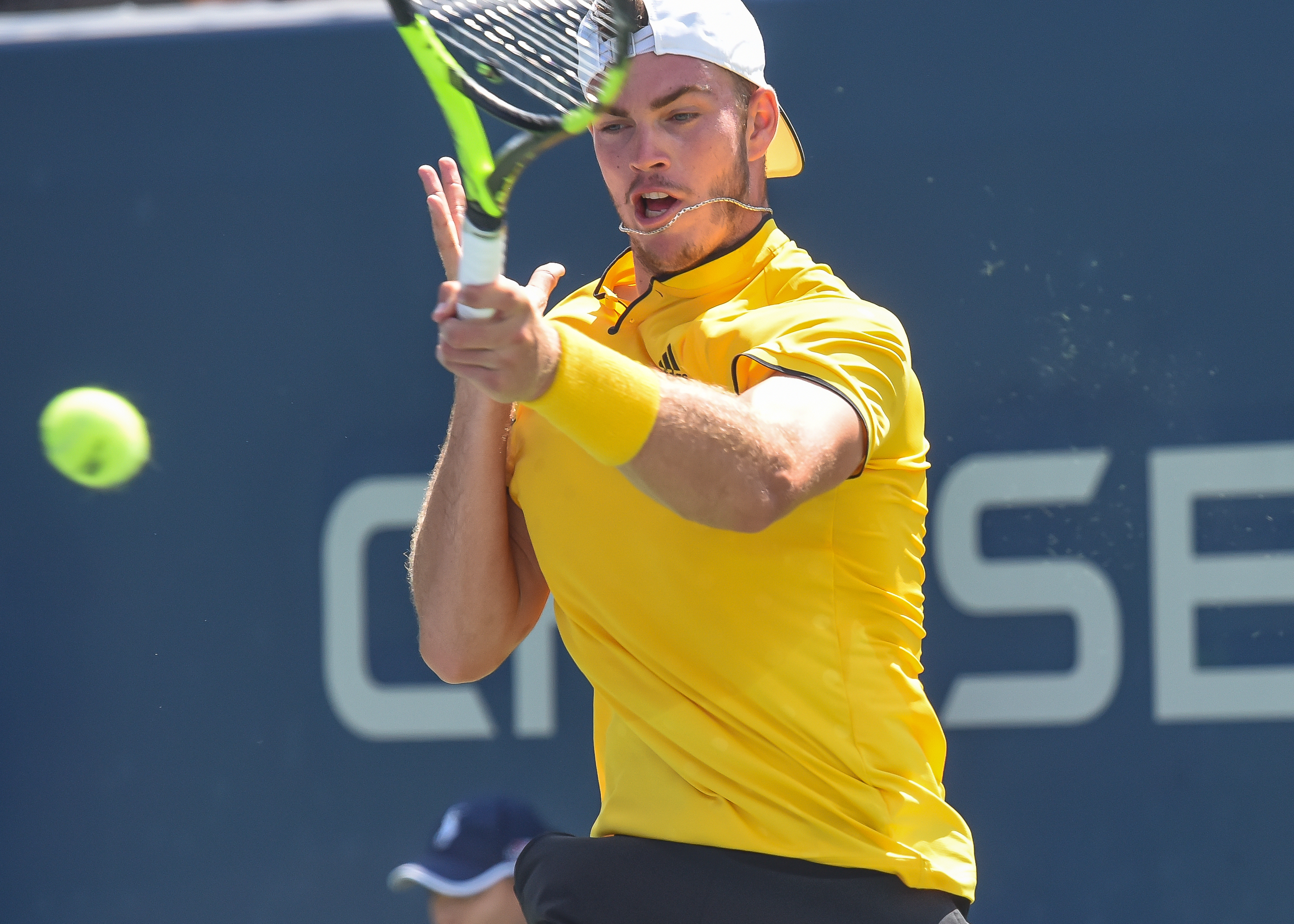 August 25, 2017 Court 6 Flushing, NY Maximilian Marterer